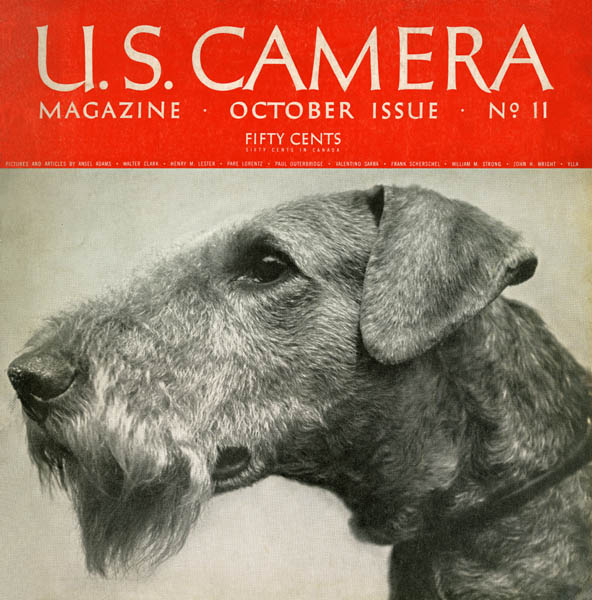 Profile photo of terrier by Ylla (Camilla Koffler), ca. 1938.